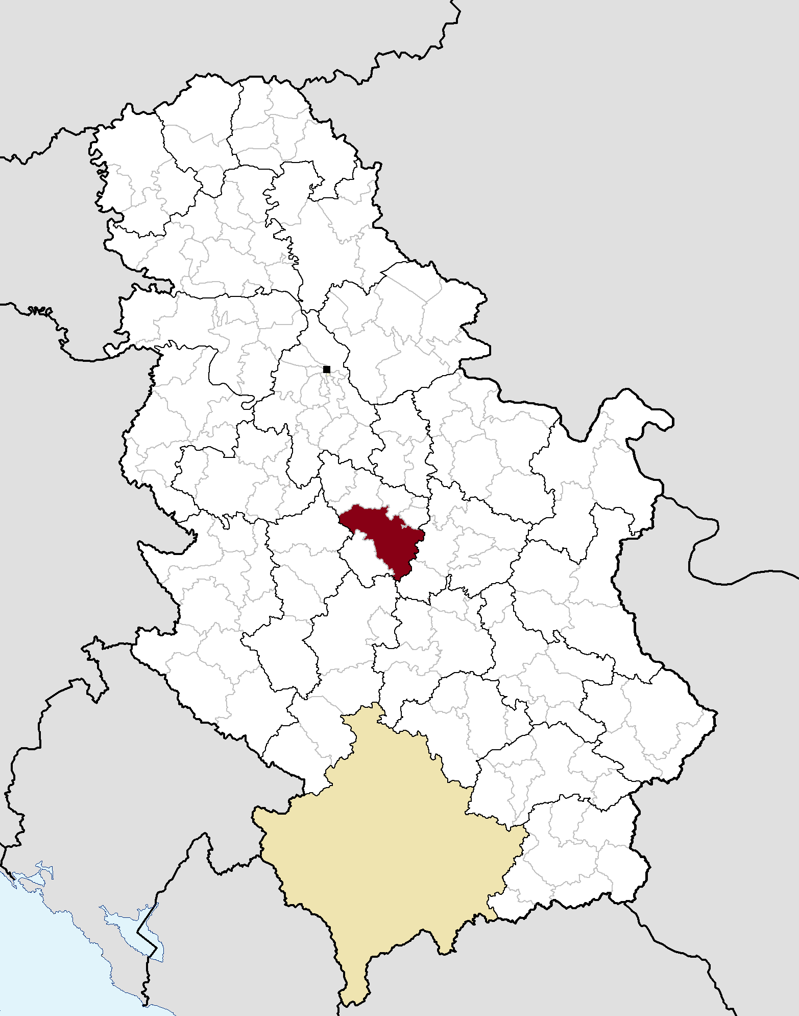 Location of Kragujevac municipality within Serbia Српски (ћирилица): Локација општине Крагујевац у Србији